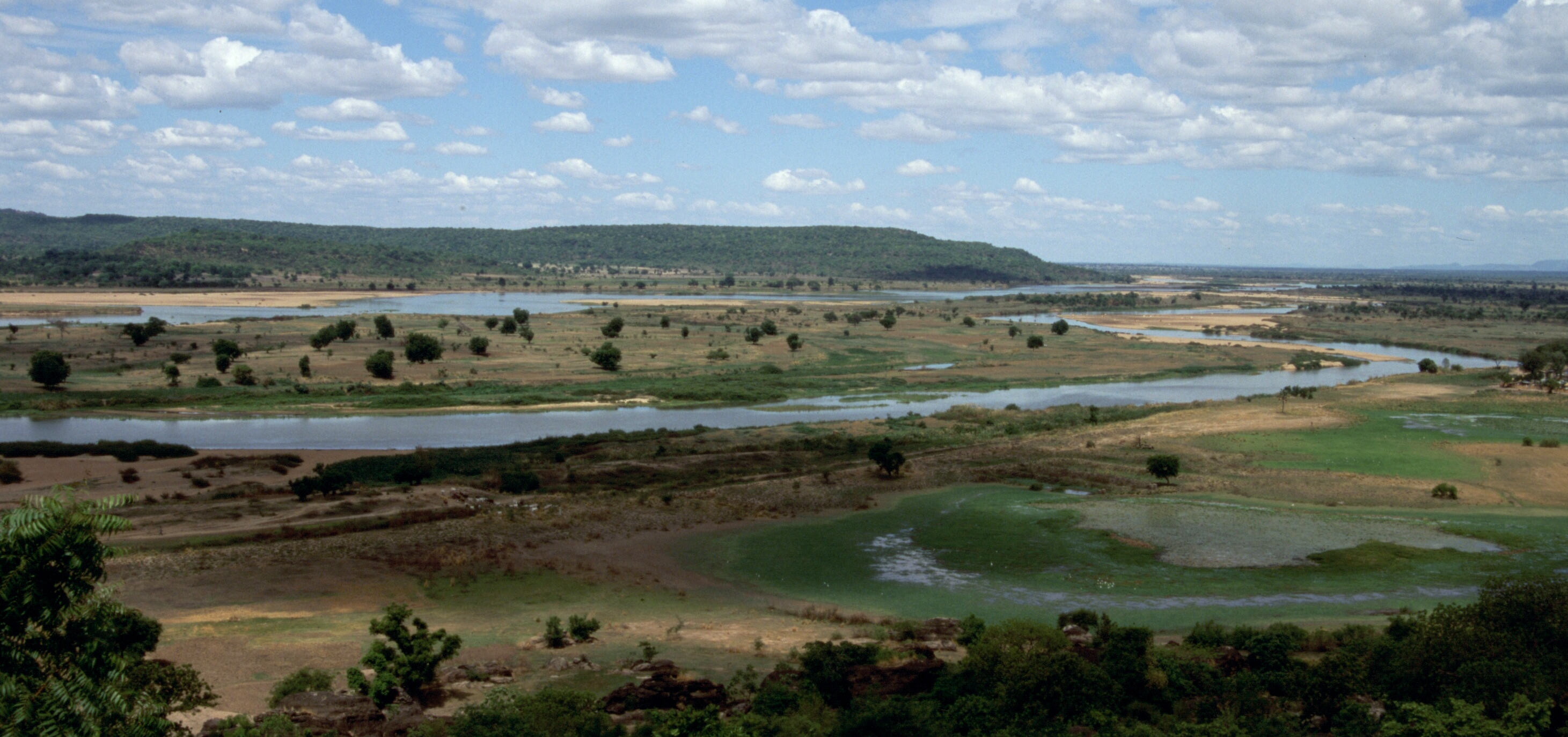 The River Benue looking south east from Jimeta/Yola. From English Wikipedia User:Leigh g bowden.